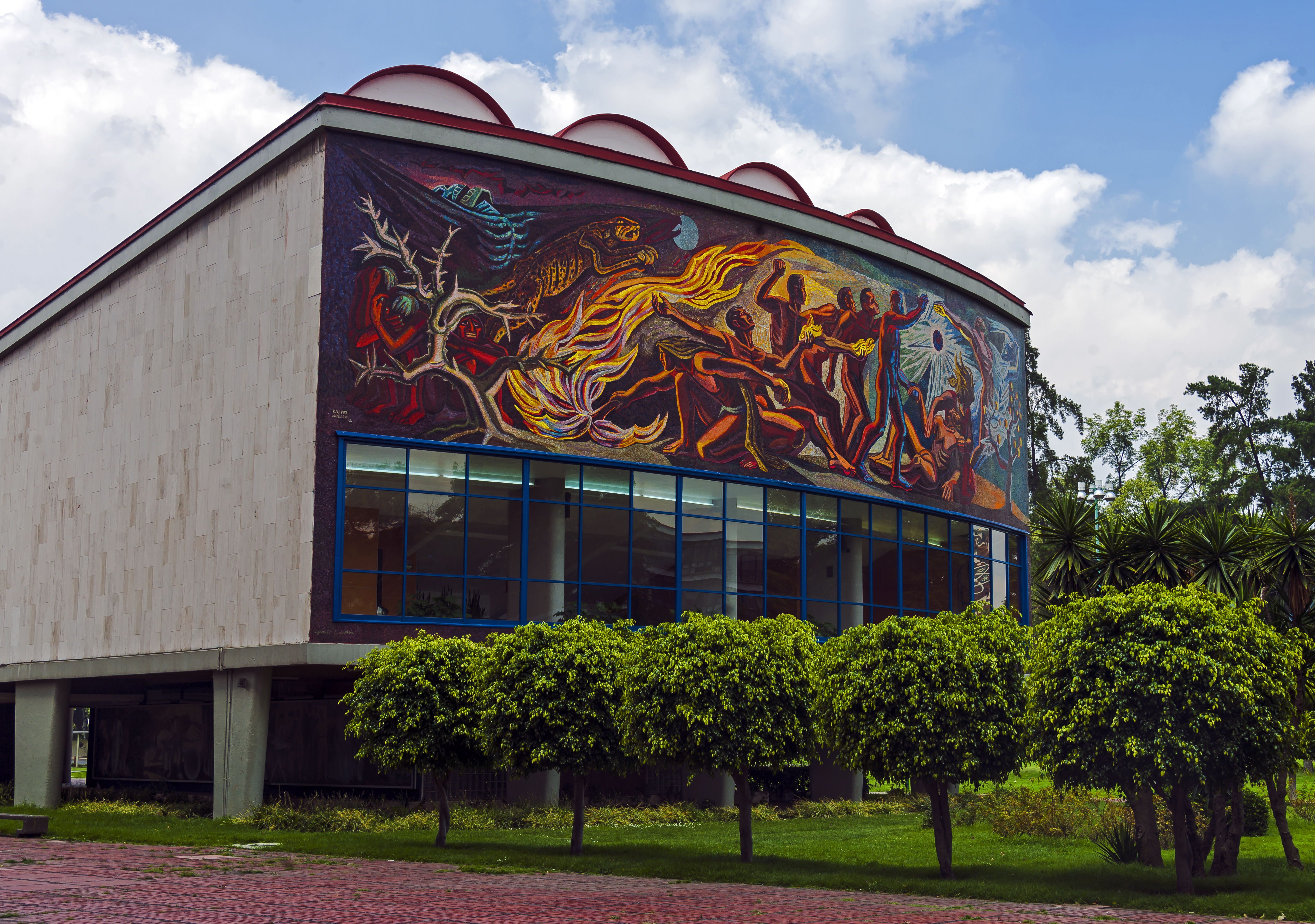 The mural on the rear of the Alfonso Caro auditorium at Ciudad Universitaria, Mexico City